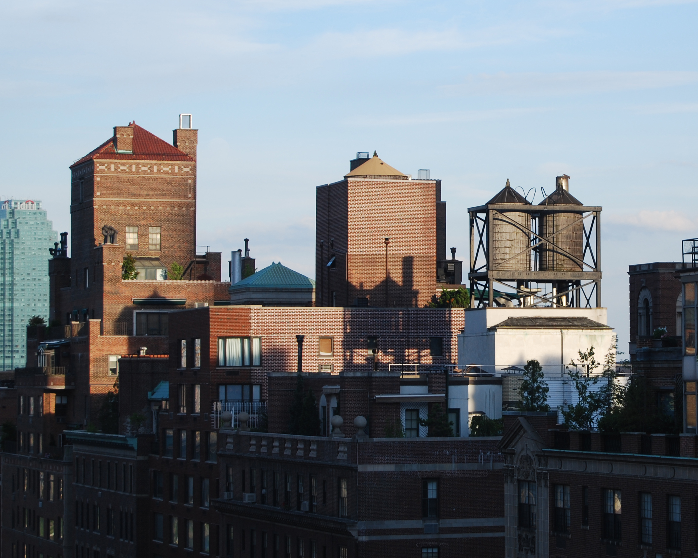 Rooftop water towers on apartment buildings on East 57th Street in New York City. The structures seen here illustrate three architectural approaches to incorporating these tanks in the design of a building. From left to right, a fully enclosed and ornately decorated brick structure, a simple unadorned roofless brick structure hiding most of the tank but revealing the top of the tank, and a simple utilitarian structure that makes no effort to hide the tanks or otherwise incorporate them into the design of the building.